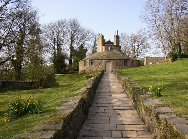 Beamsley Hospital, Beamsley Another view of the circular almshouse building. This is the original 16C building, founded in 1593 by Margaret, Countess of Cumberland. The range facing the road was added later by Lady Anne Clifford. The almshouses were in use until the 1970s, by which time the cost of the major works needed to repair them had become too great. They are now owned by the Landmark Trust. The plan of the circular building was a central chapel, with clerestory lighting, surrounded by seven small rooms, originally one for each Sister.